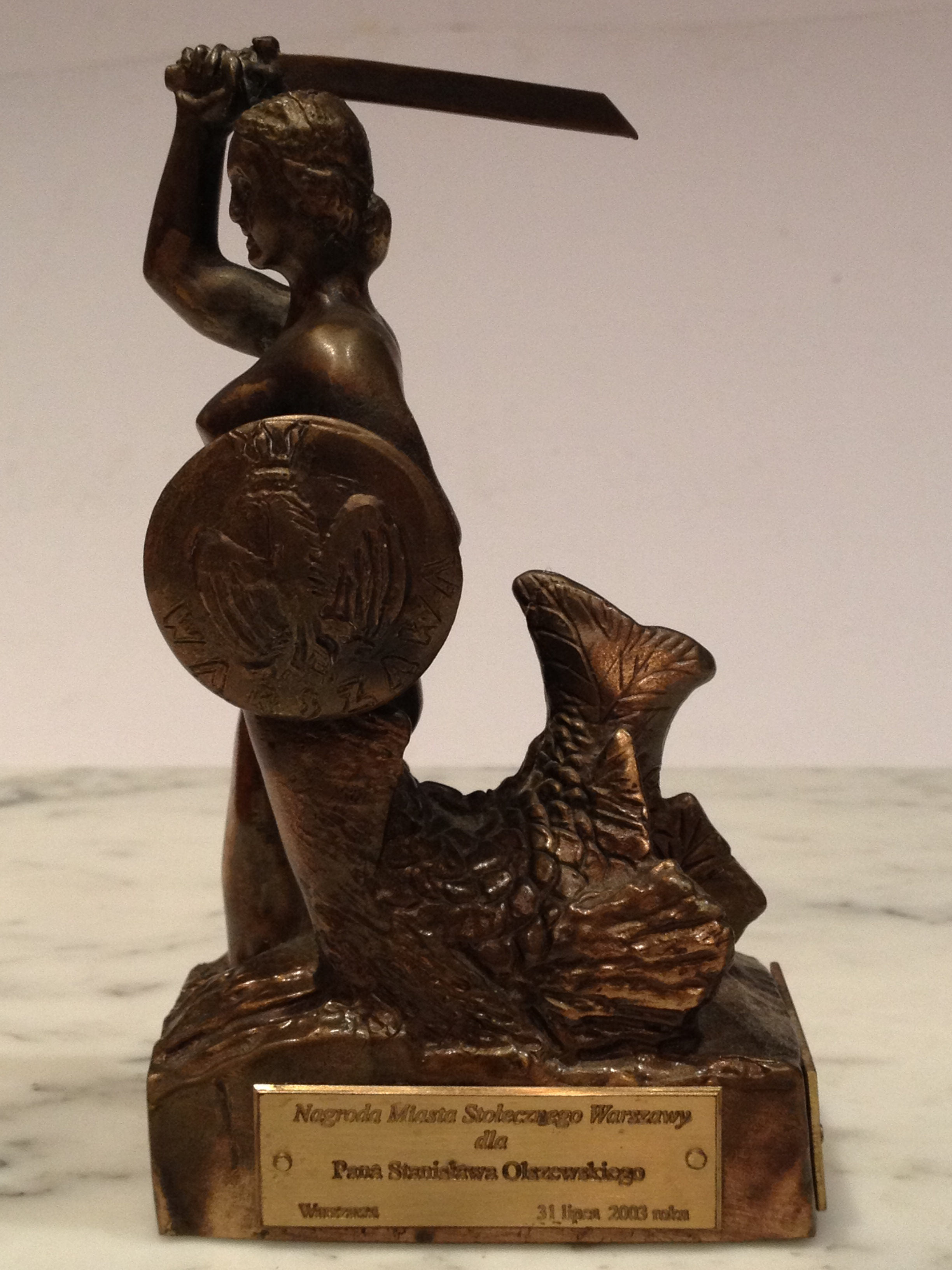 Capital City of Warsaw Award